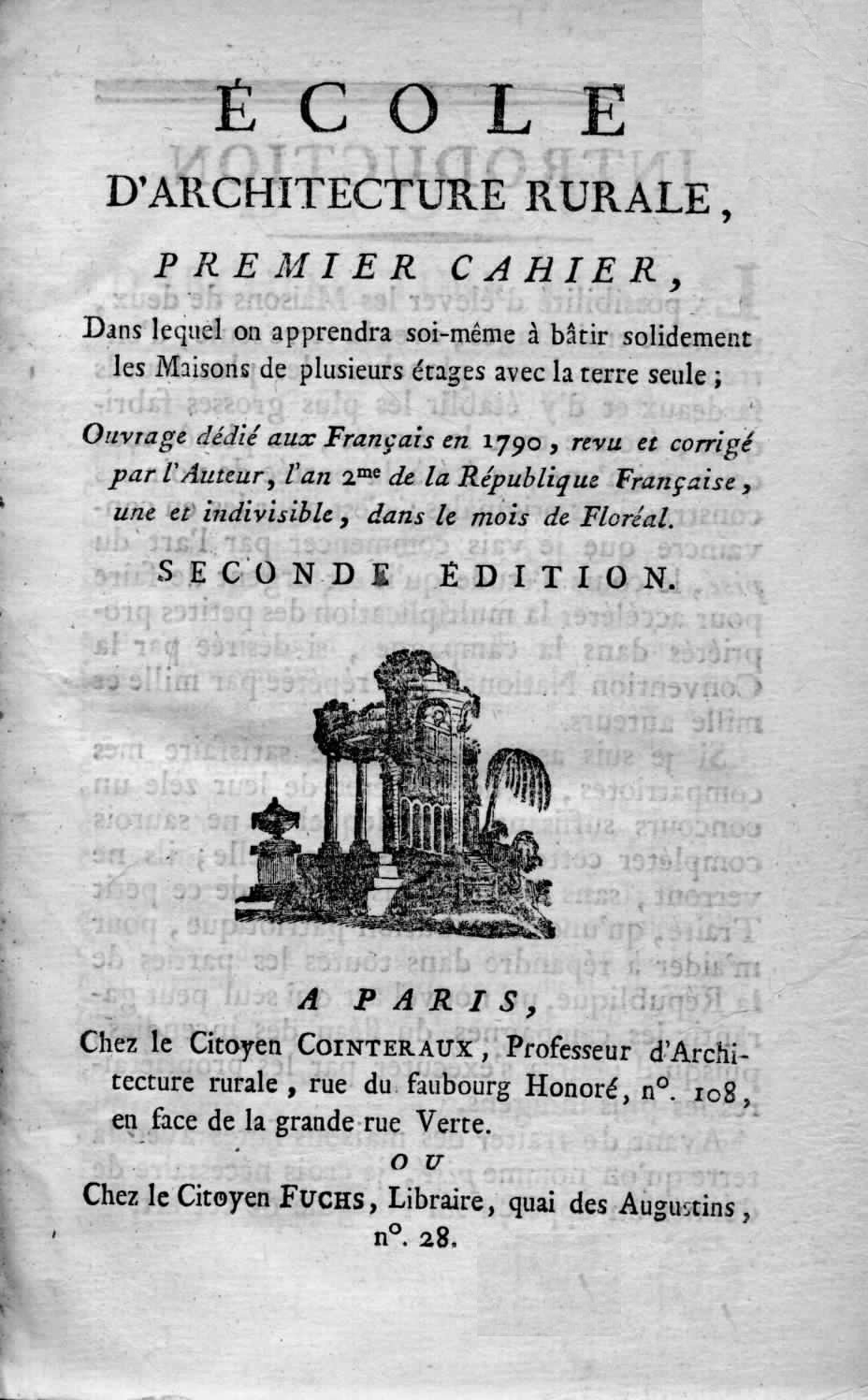 François Cointeraux (1740 - 1830), École d'Architecture Rurale, Paris 1791.